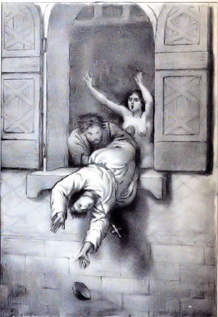 Pope John XII's death, drawn extracted by Franco Cesati, I Misteri del Vaticano o la Roma dei Papi (The misteries of Vaticano or the Rome of Popes), vol.1, 1861